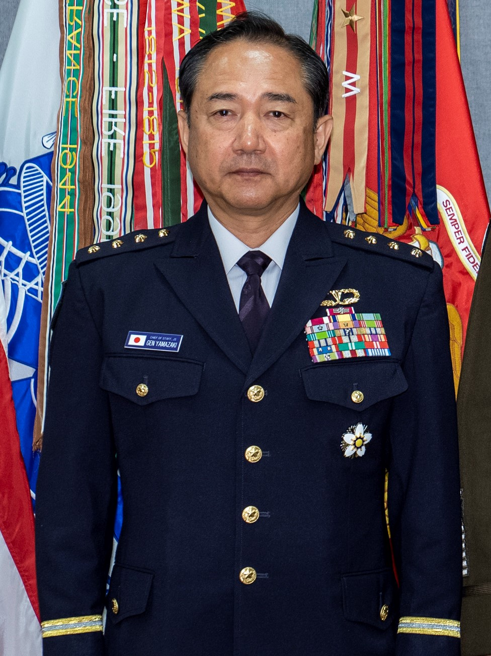 Japanese Chief of Staff, Joint Staff Gen. Koji Yamazaki